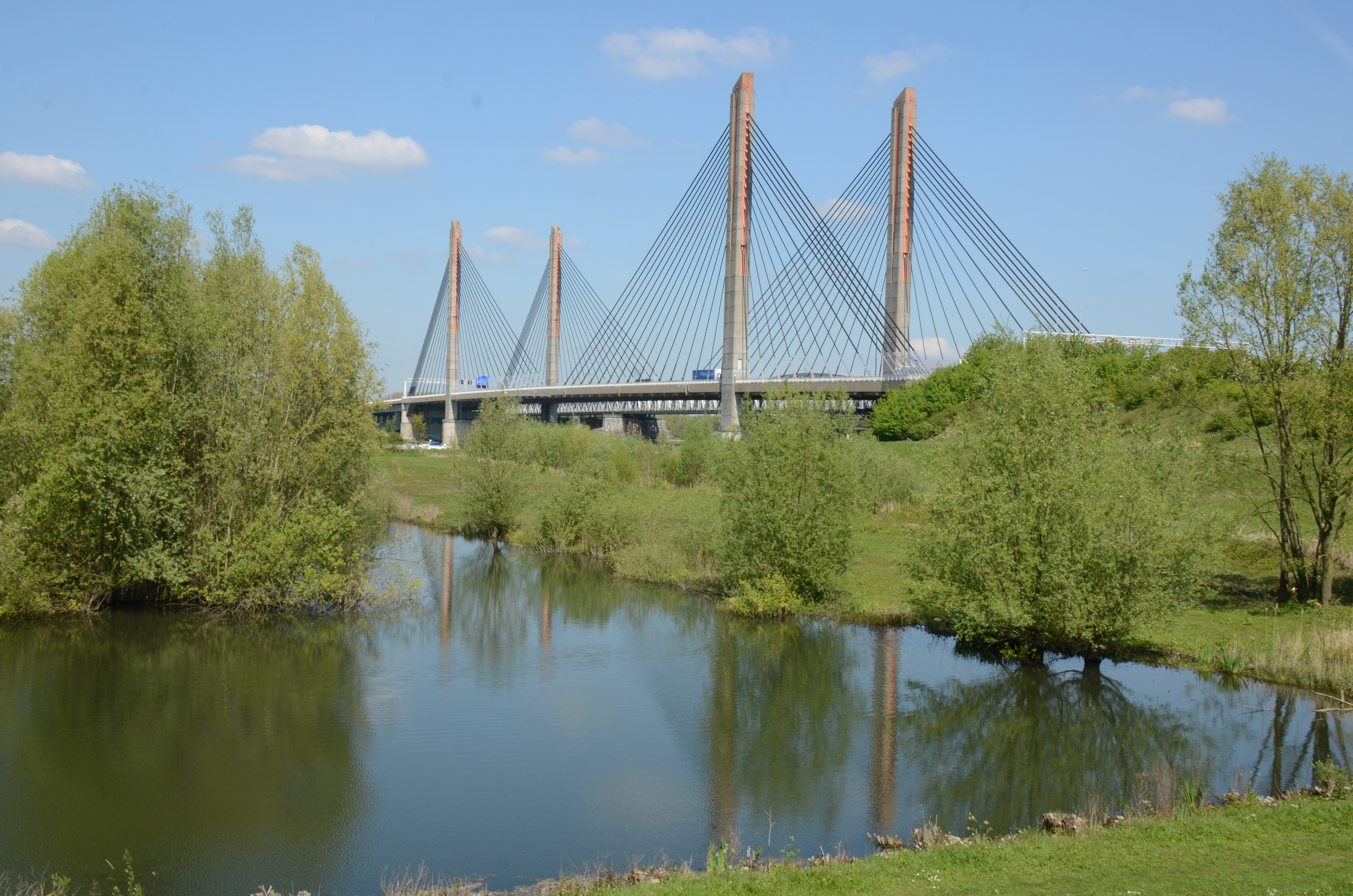 Nice reflections of the Zaltbommel Waalbridge named by the Dutch Poet Martinus Nijhof